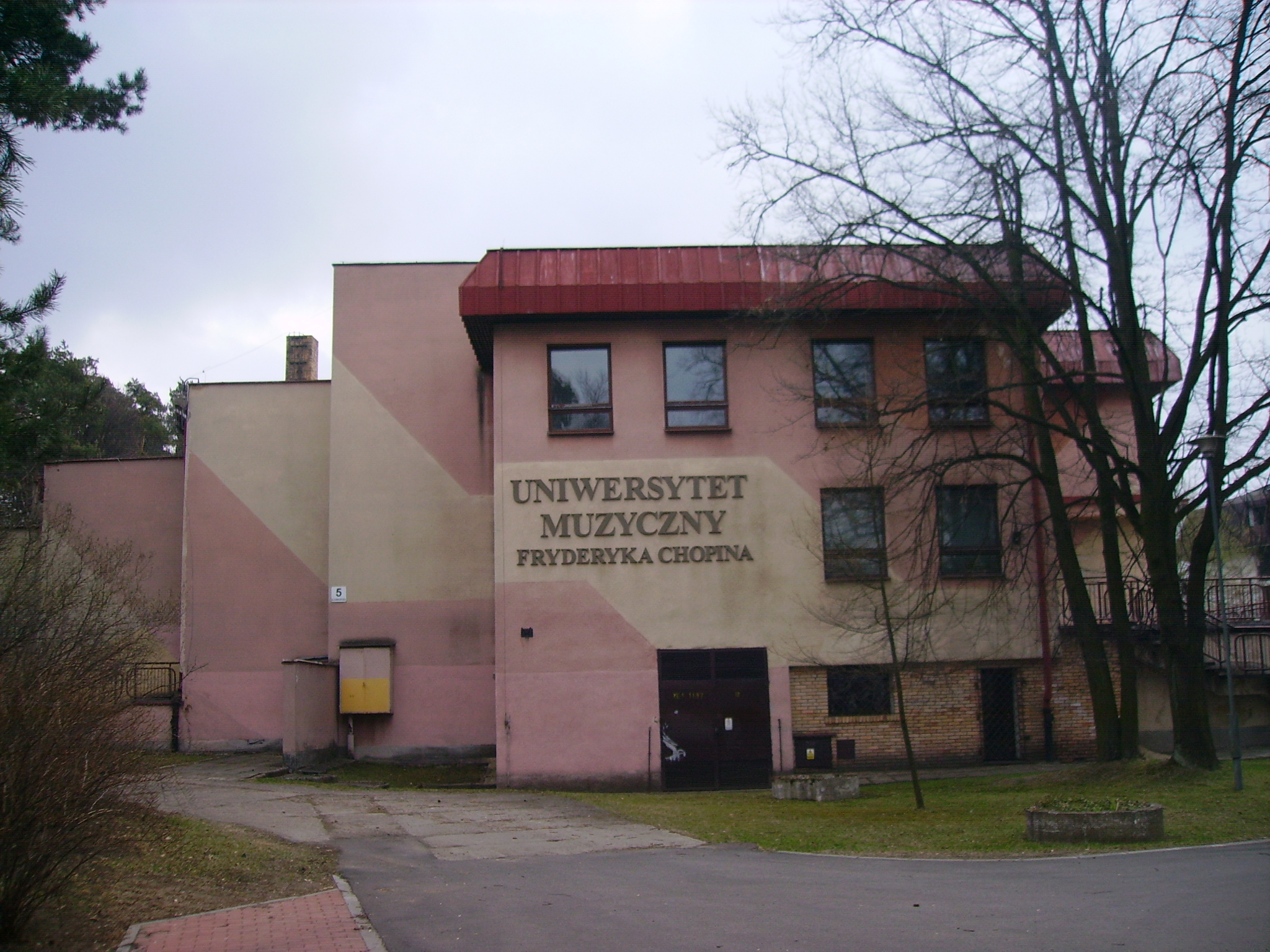 Frederic Chopin Music University in Białystok, 5 Kawaleryjska Street.